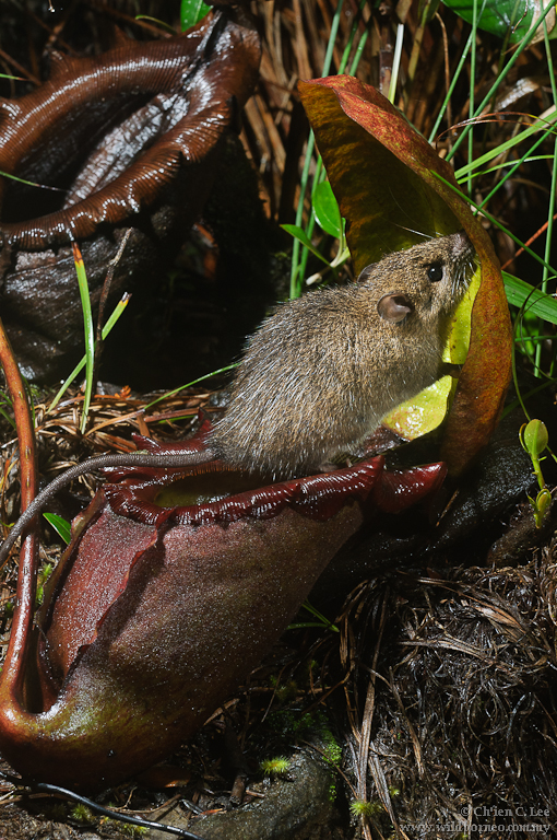 Original caption: "Rattus baluensis visiting a Nepenthes rajah pitcher at night." Photograph taken by Ch'ien Lee.